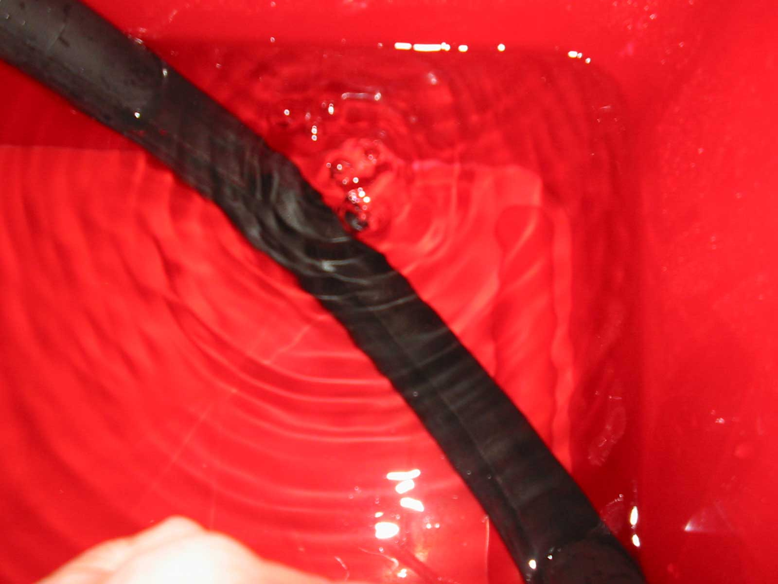 Finding a hole in a bicycle tube, under water, in a worst case, where every other method failed.